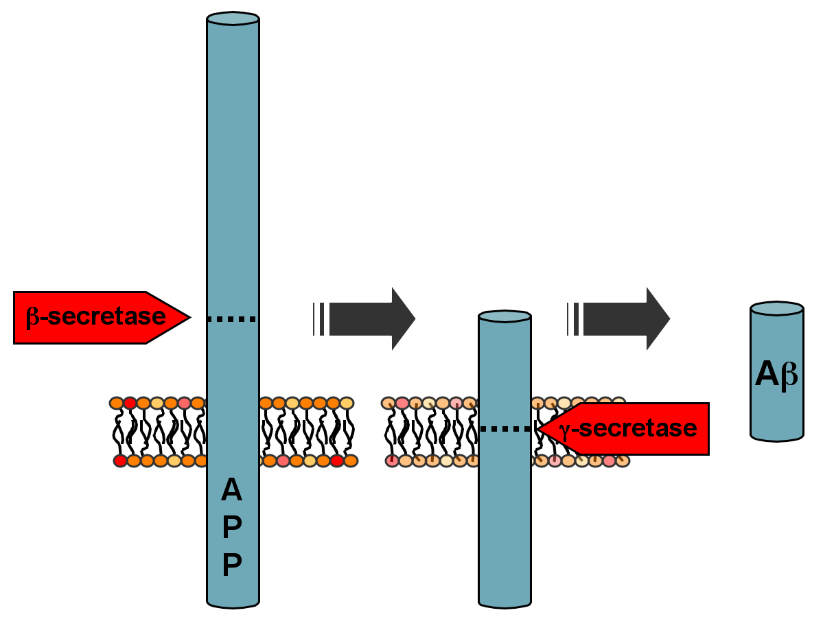 Depiction of amyloid precursor protein processing, created by I. Peltan Ipeltan